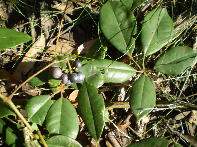 Cissus hypoglauca 'five-leaf water vine', sclerophyll forest. Timbarra Plateau, New South Wales, Australia.